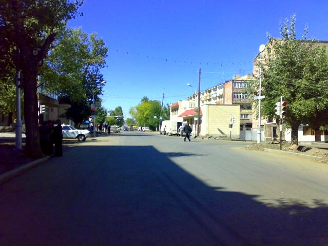 Tashir town centre